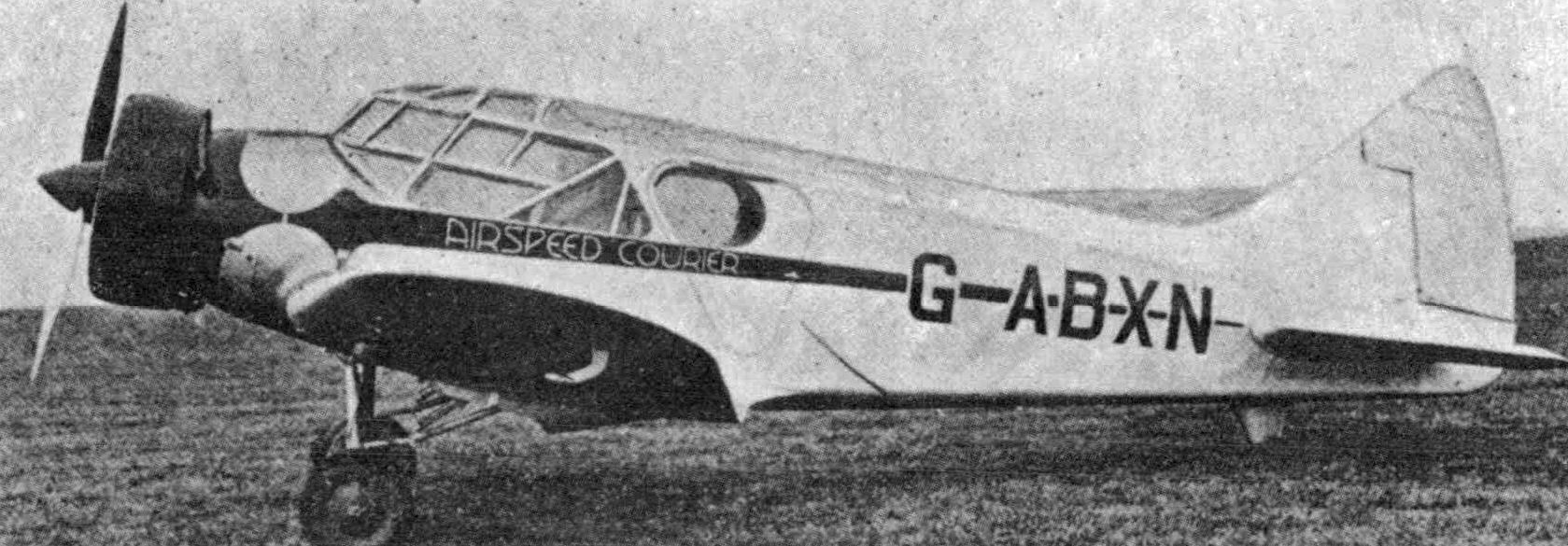 Airspeed AS.5 Courier photo from NACA-AC-178